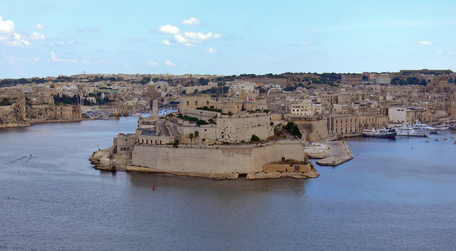 Fort St. Angelo in Birgu (Vittoriosa) seen from Barakka Gardens, Valletta